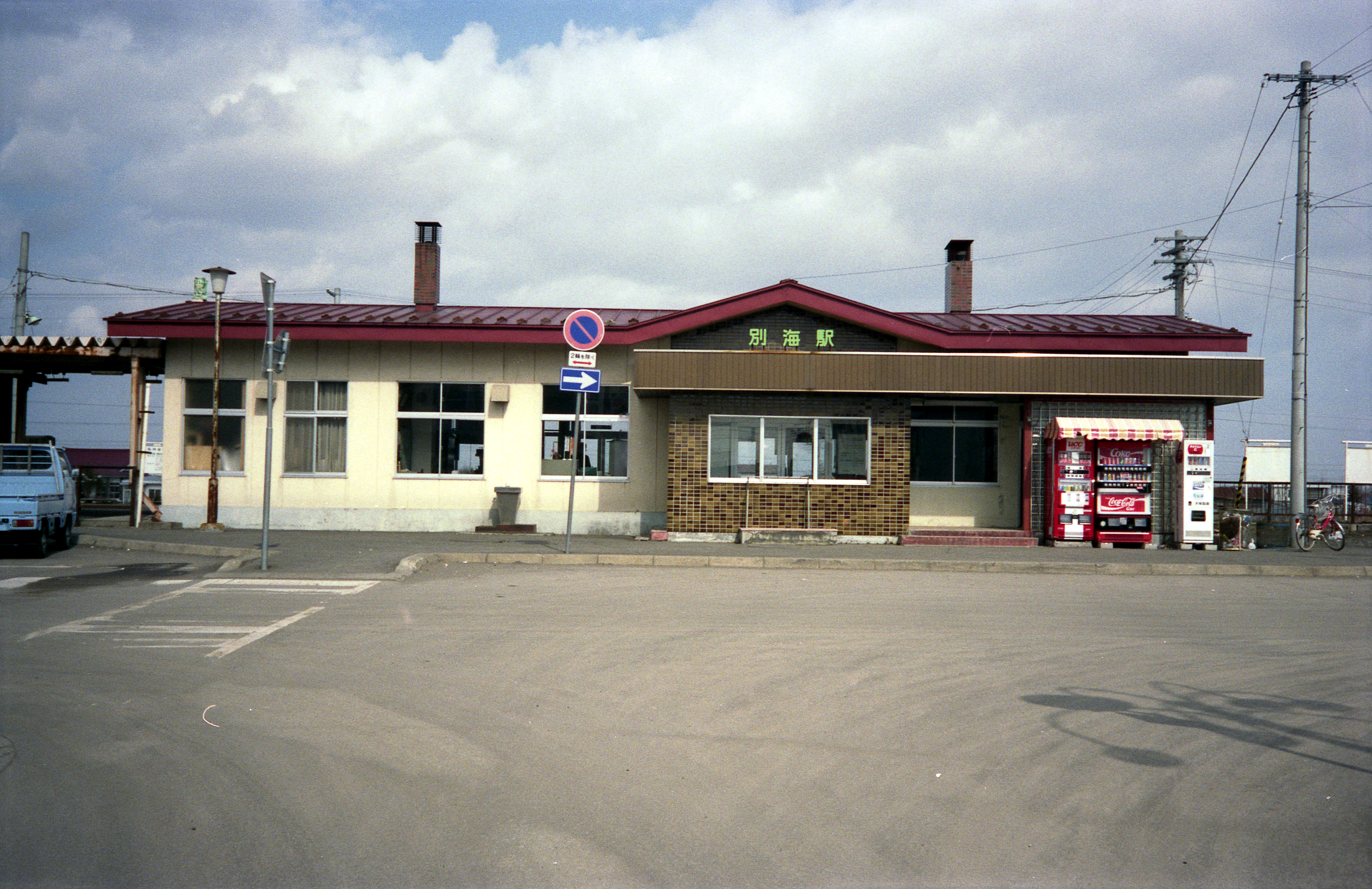 The building of Bekkai Station,Hokkaido Railway Company Shibetsu Line(before abolished)